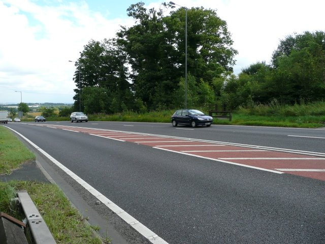 The footpath crosses the Stocksbridge Bypass Having chosen this route we have to negotiate the very busy Stocksbridge bypass to pick up the `old Howbrook Lane' on the otherside.